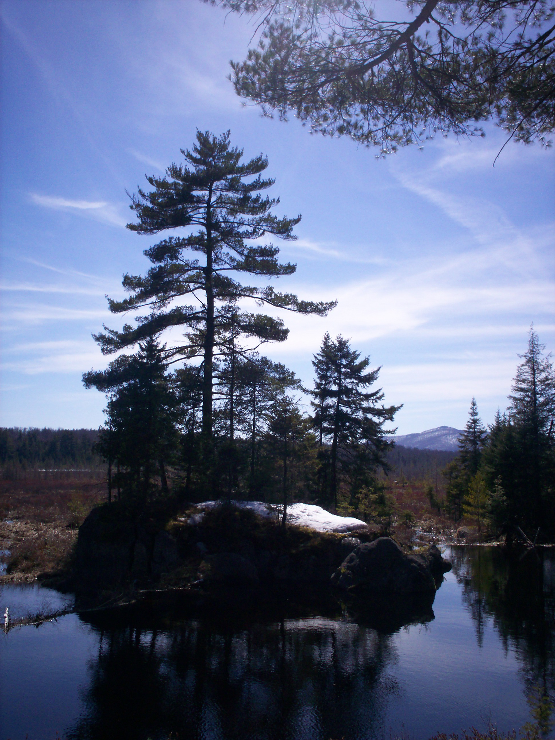 Paul Smiths VIC, Heron Marsh from the Barnum Brook Trail New York, USA